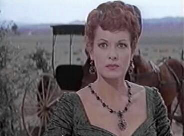 Maureen O'Hara in McLintock! (cropped screenshot)